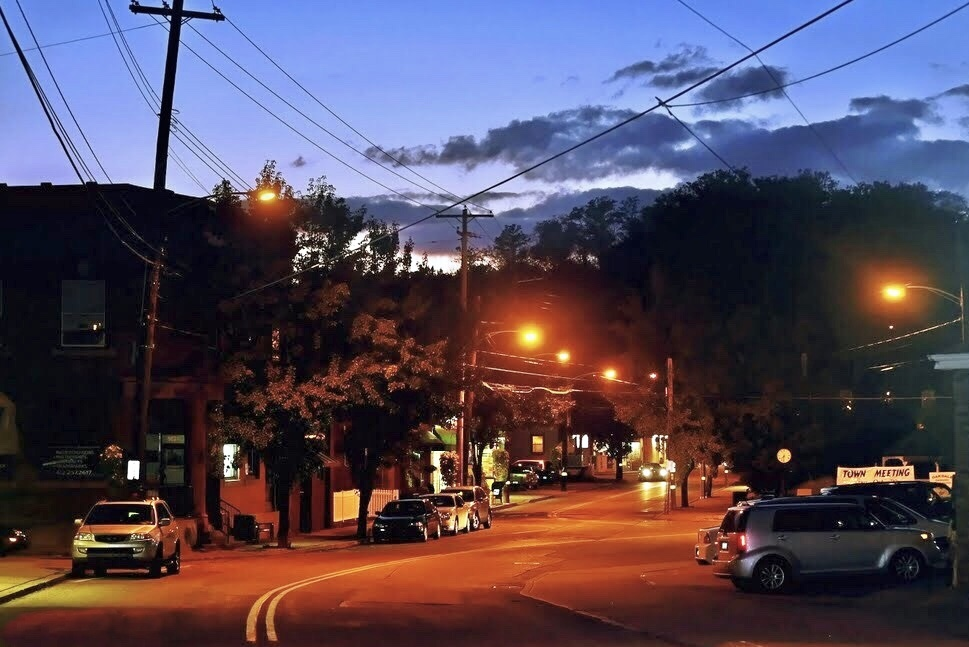 duni town in Assam